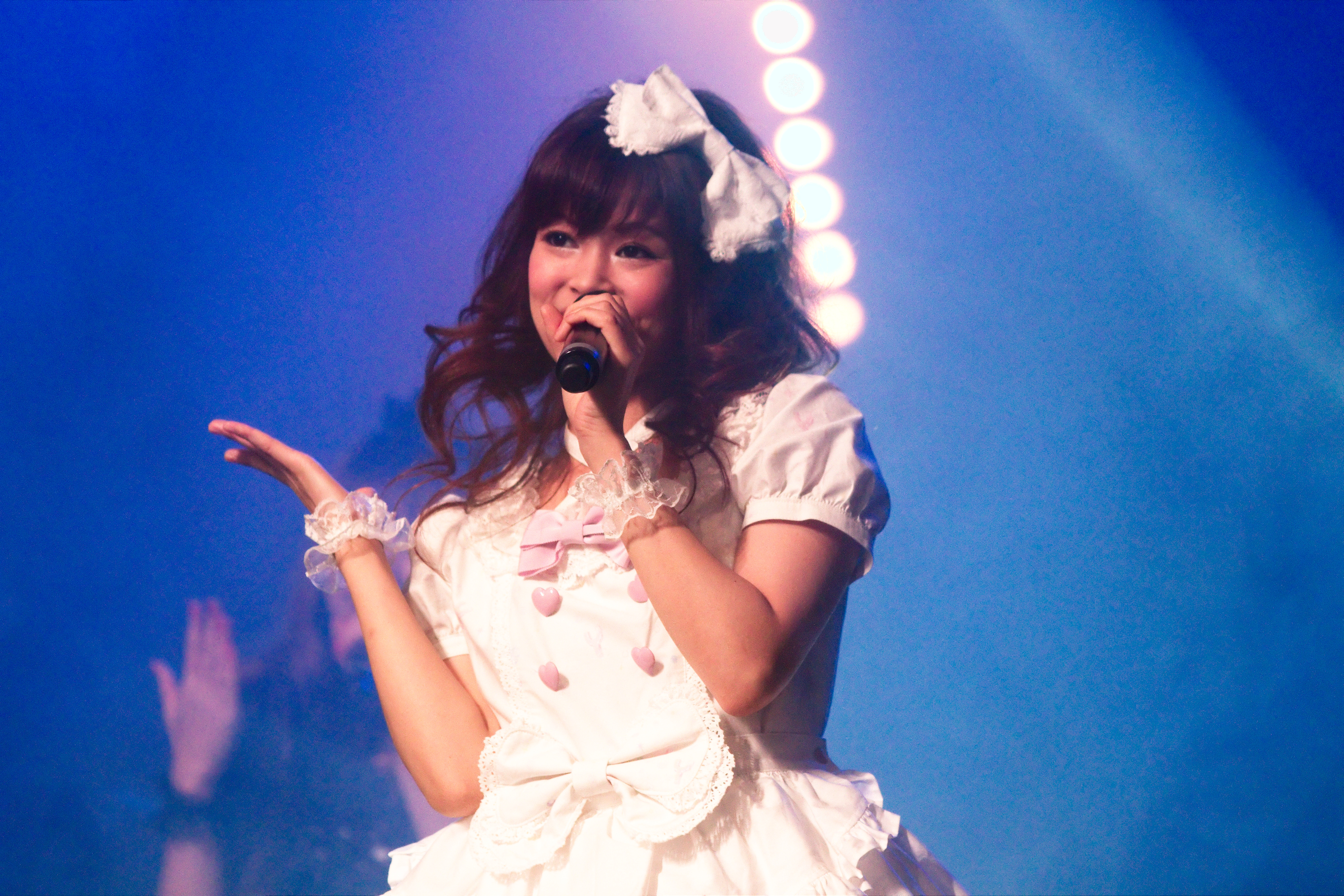 C-Zone live at Japan Expo 2010 (Paris, France).